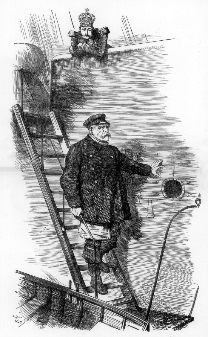 Dropping the Pilot. Cartoon by Sir John Tenniel (1820-1914), first published in the British magazine Punch, 29 March 1890. Showing German Emperor Wilhelm II and former Chancellor Otto von Bismarck, who had resigned two weeks earlier. The reference to Bismarck as a "pilot" comes from an earlier cartoon from the Puck magazine from Saint Louis, Missouri. For that magazine, the cartoonist Joseph Keppler made one titled "The Champion Pilot of the age", featuring Bismarck on a ship, having brought it out to the high seas. In the background, the cartoonist depicted the French ship of state in distress. This symbolized Bismarck’s accomplishment of forming the German Kaiserreich by means of the Franco-Prussian War. [source: Satire on Stone: The Political Cartoons of Joseph Keppler].